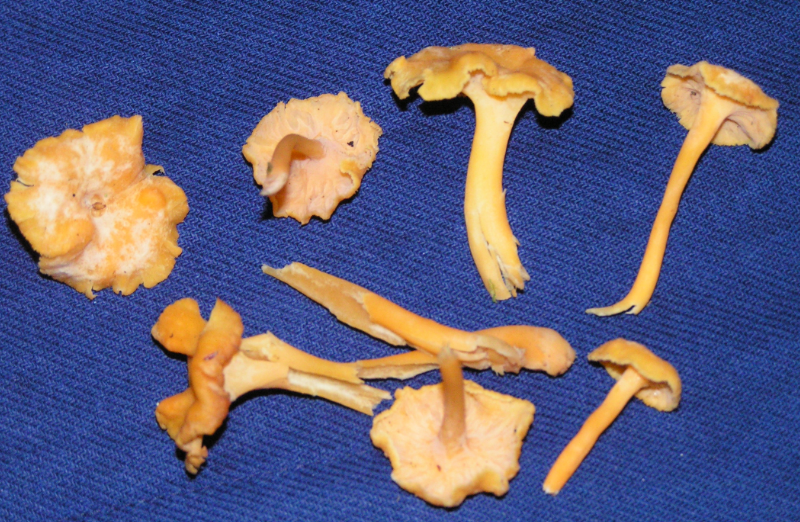 Rare, Yellow Mushroom